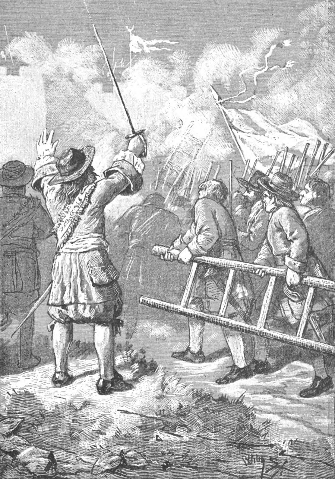 Storming of Kediri during Trunajaya rebellion - illustrated in a 1890 children's novel